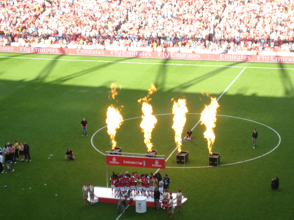 2007 Arsenal Winning the Emirates Cup.